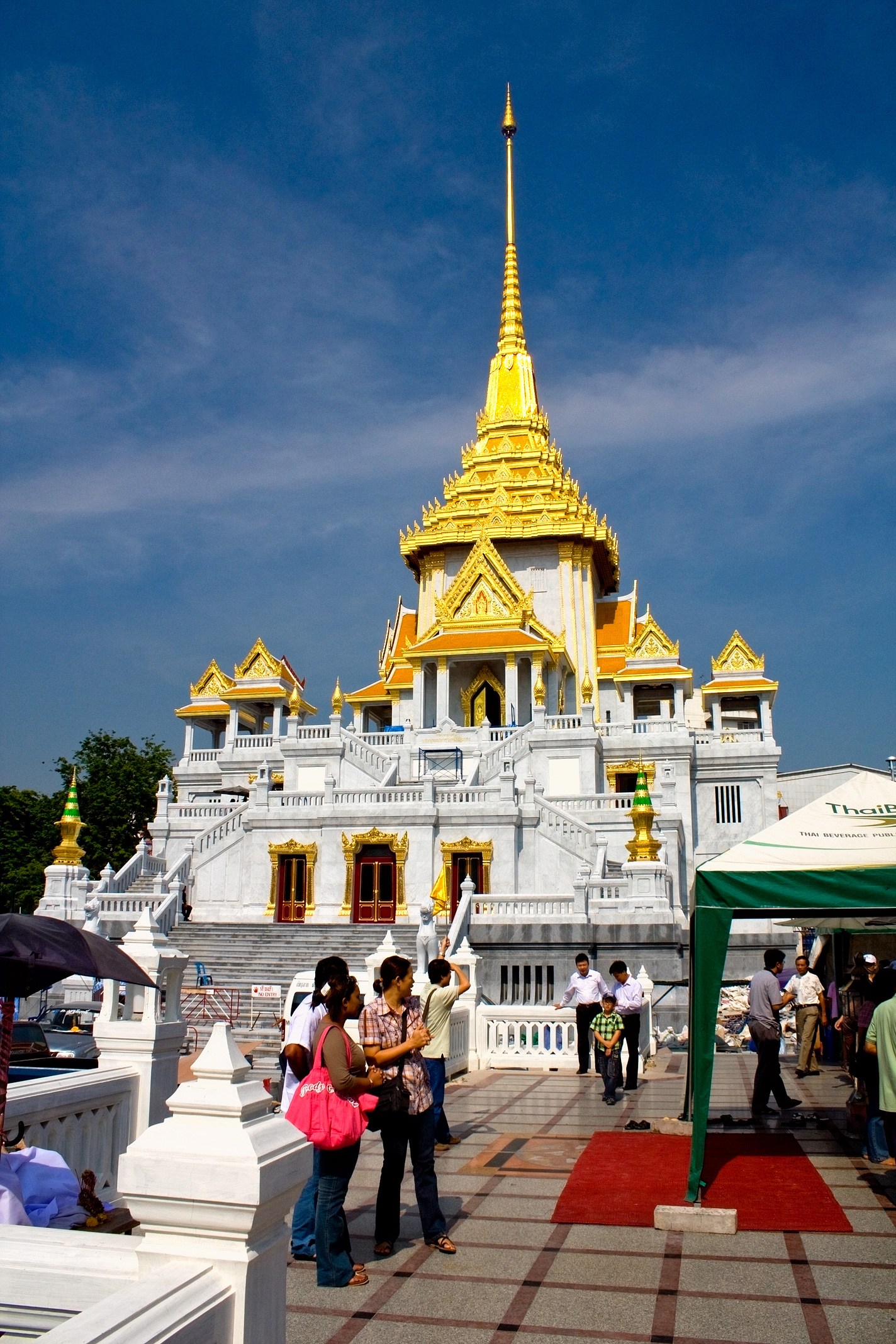 The new Phra Maha Mondop, Wat Traimit, Samphan Thawong district, Bangkok